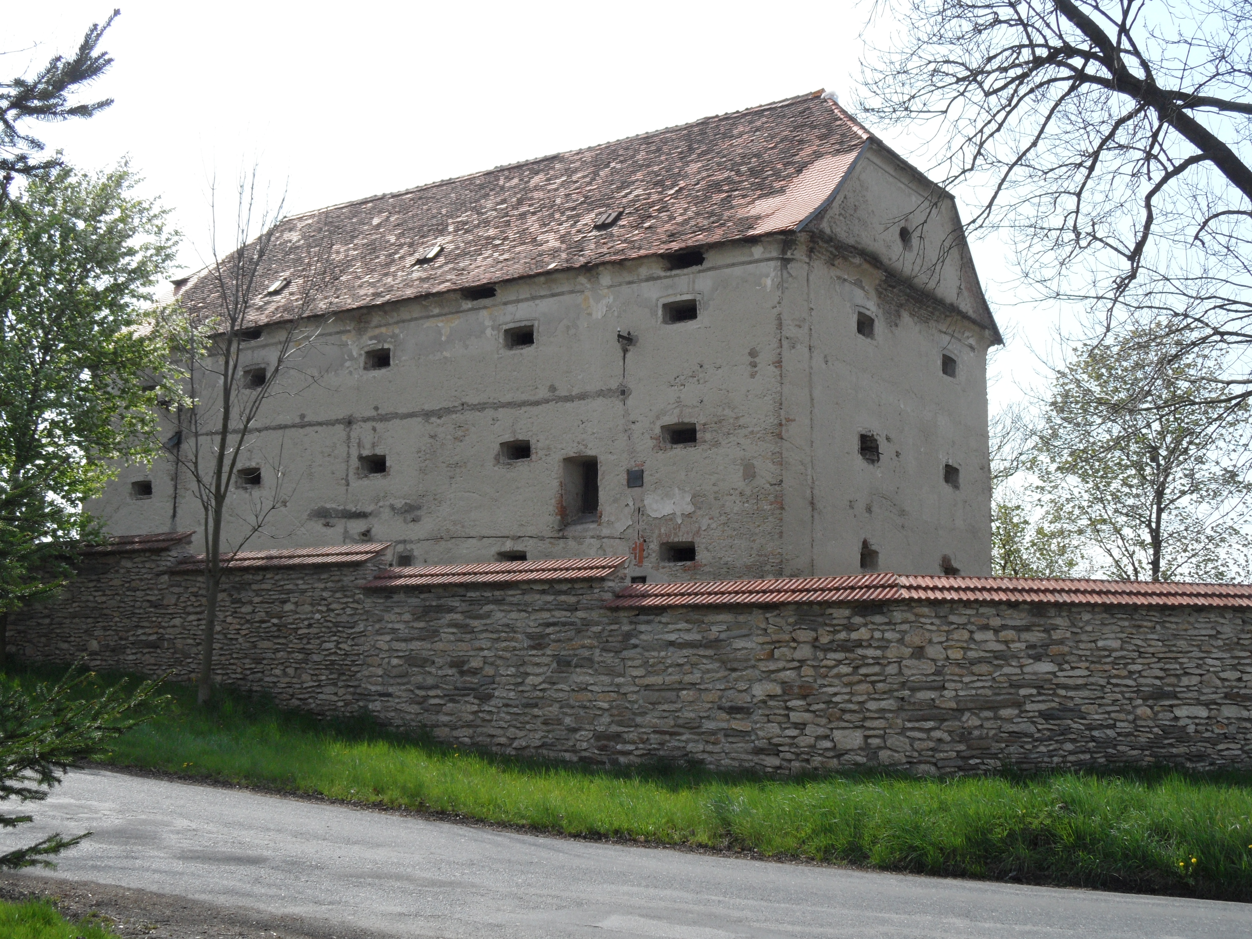 Radovesnice I e. Baroque Granary, Kolín District, the Czech Republic.